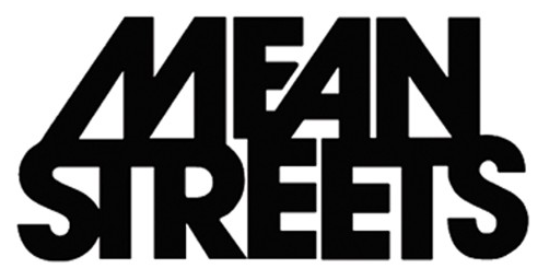 Movie logo of the film "Mean Streets" (1973).